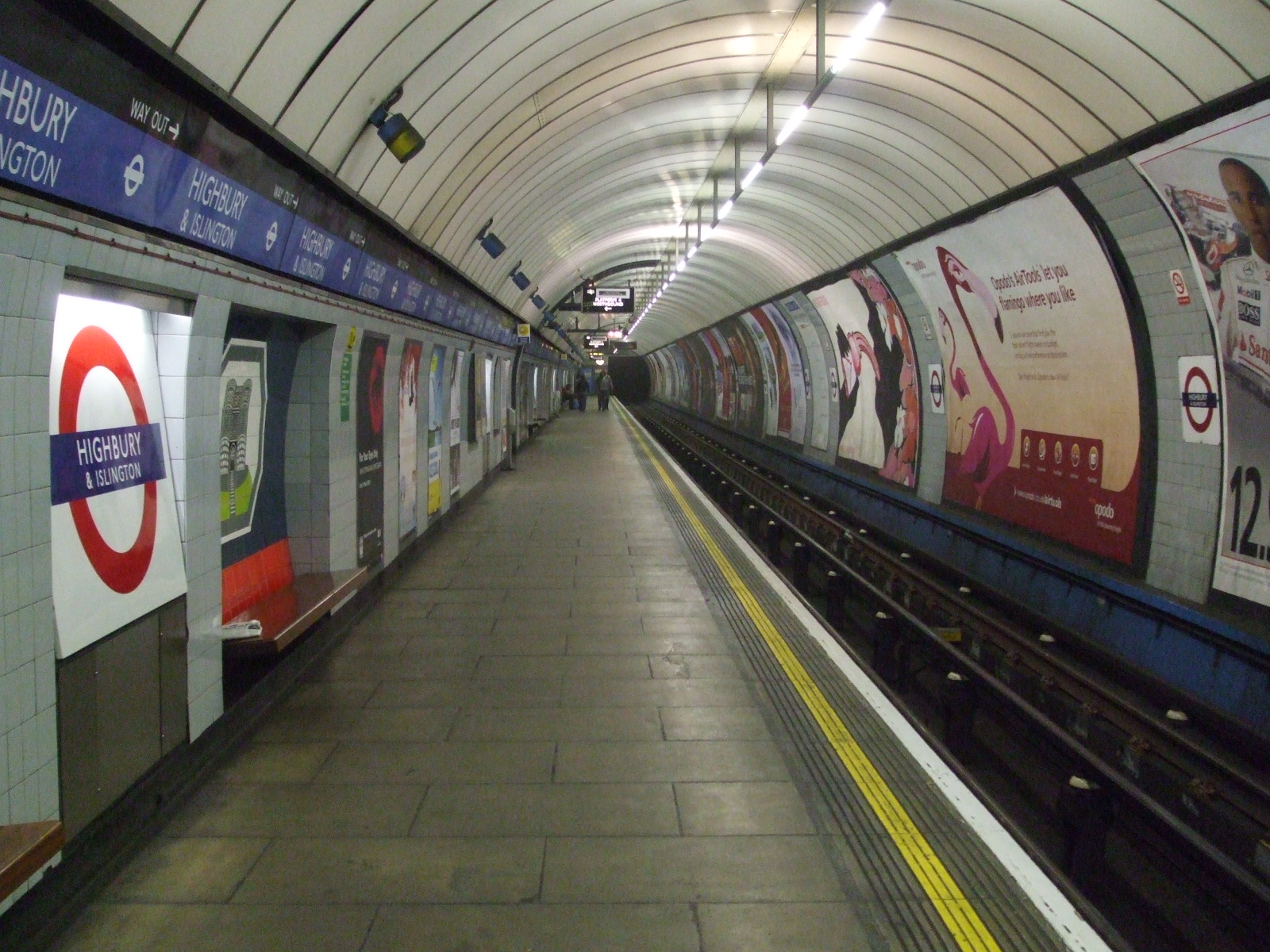 Highbury & Islington station northbound Victoria line platform looking south. The castle motif, visible on the left, is by Edward Bawden